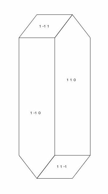 Crystal form of left-handed austinite